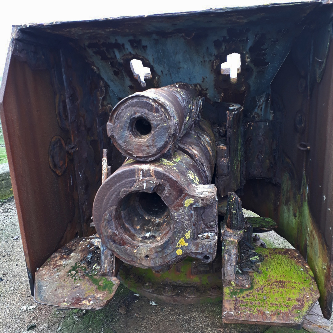 Gibralter's guns have been left on Vementry but their breaches were removed to render them unusable